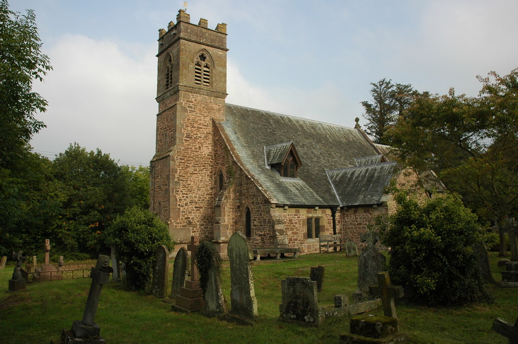 St Michael's parish church, Mitchel Troy, Monmouthshire, seen from the southwest